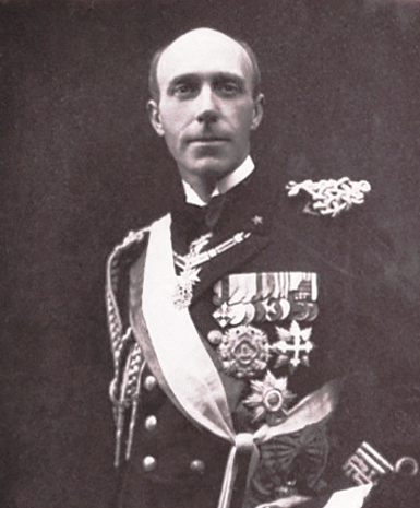 The Prince Ferdinando di Savoia-Genova (1884-1963).